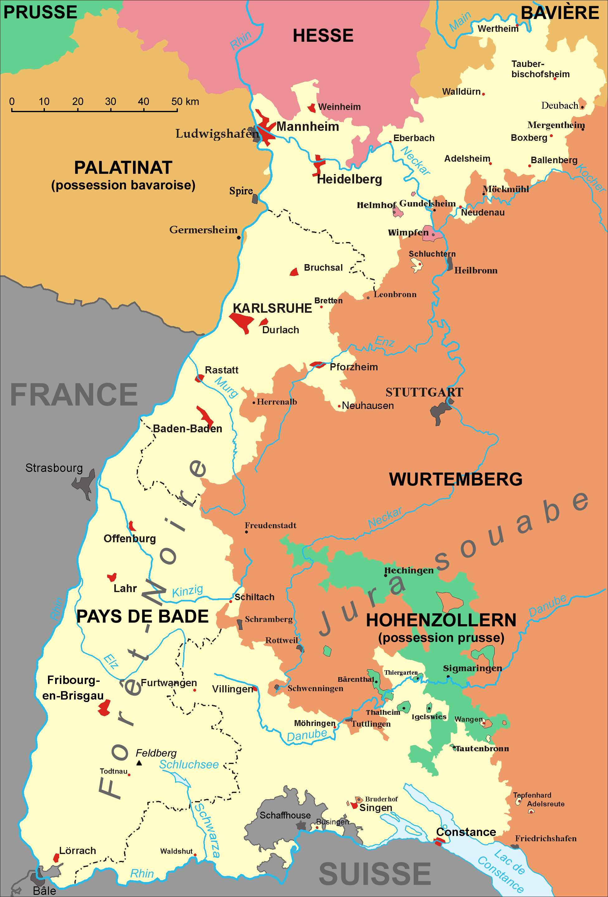 Map of the Grand Duchy of Baden (Germany), from 1806 to 1945.